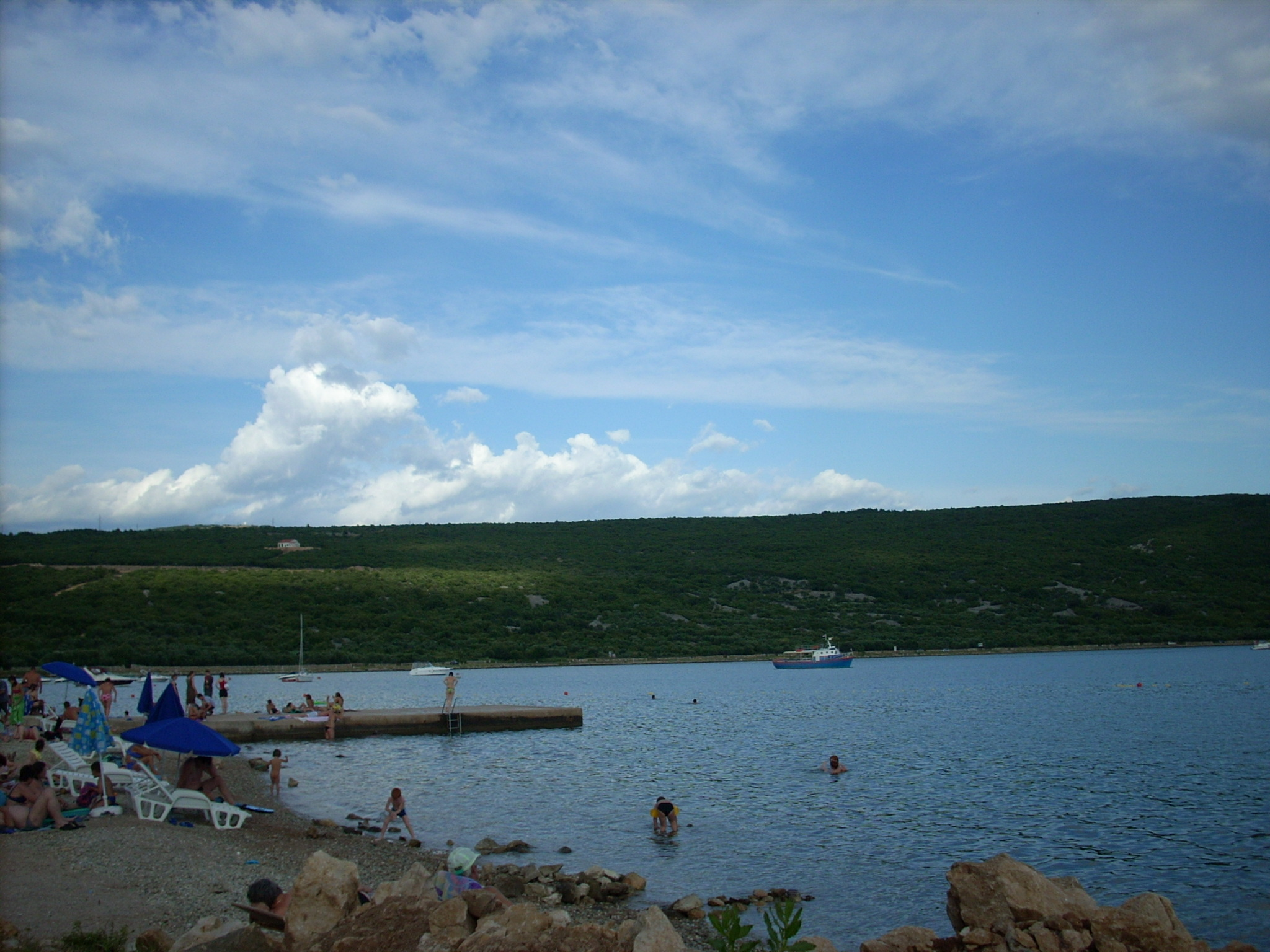 Dunat Beach near Kornić (Island Krk, Croatia).